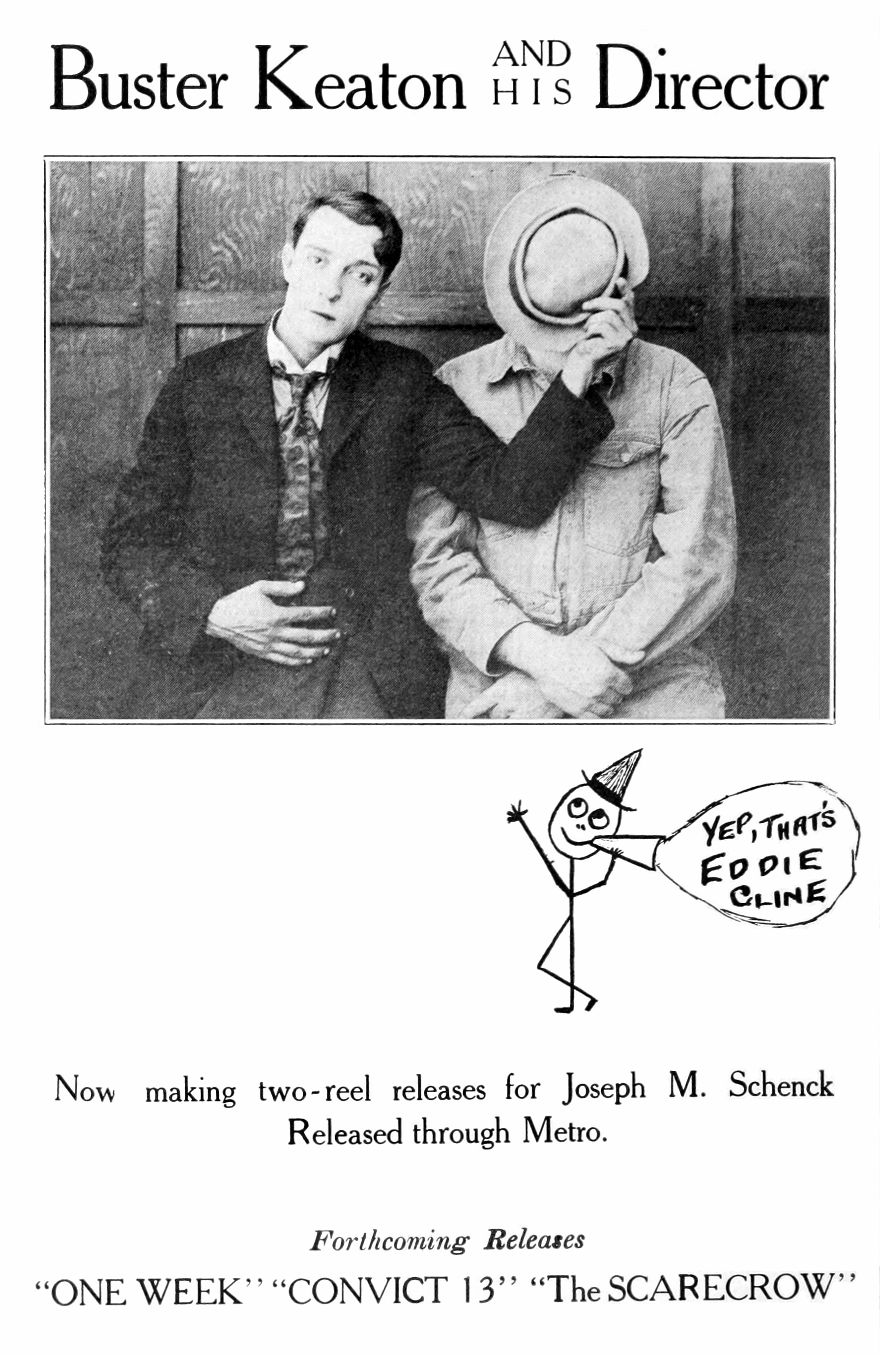 Print advertisement for Buster Keaton and Edward F. Cline, making two-reel films for Joseph M. Schenck for distibution by Metro Pictures